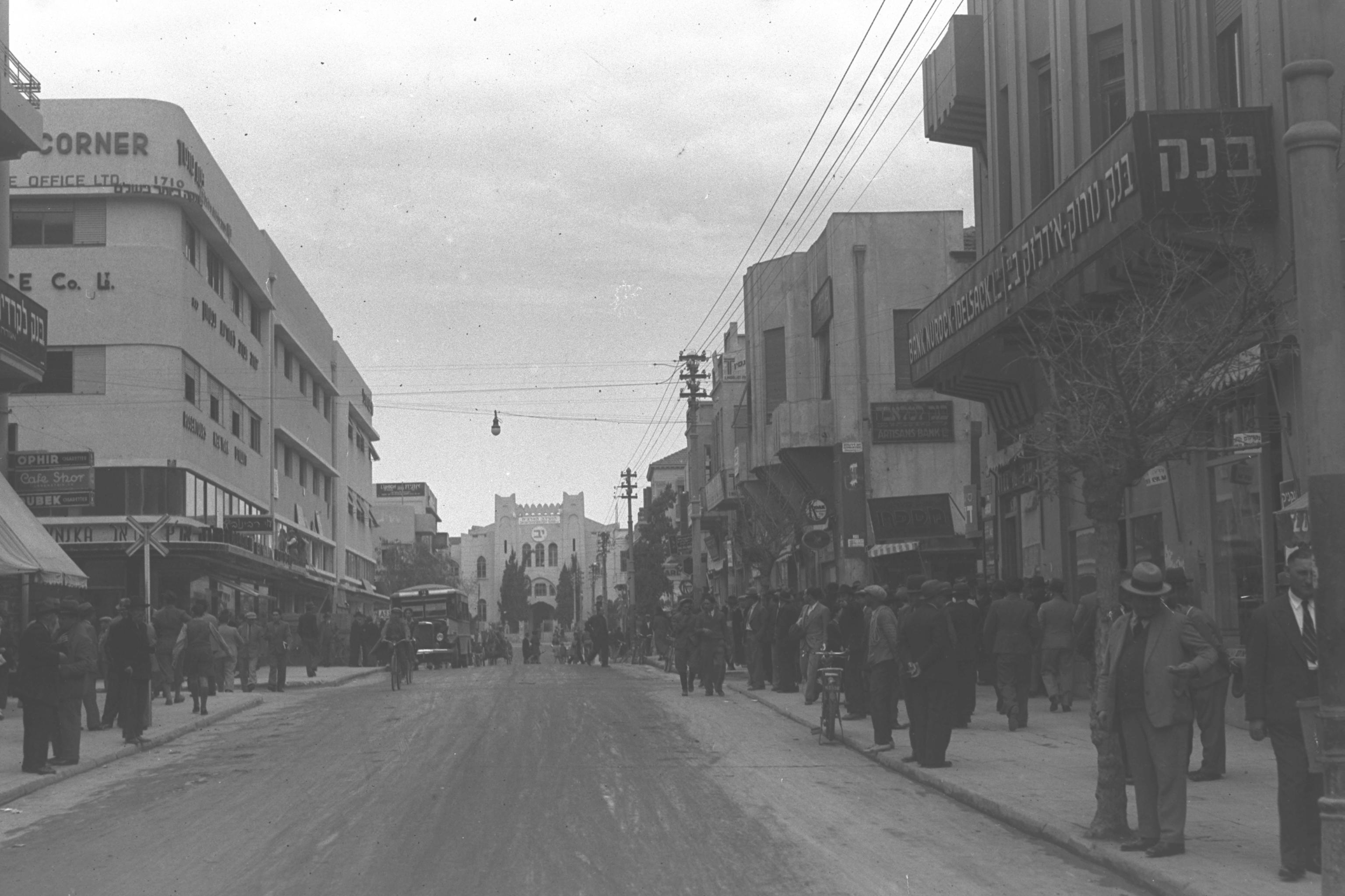 Herzl Street in Tel Aviv. In the right Bank Nurock Idelsack